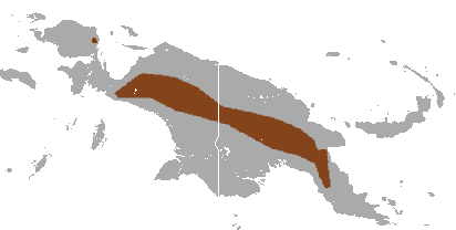 Long-nosed Dasyure (Phascomurexia naso) range